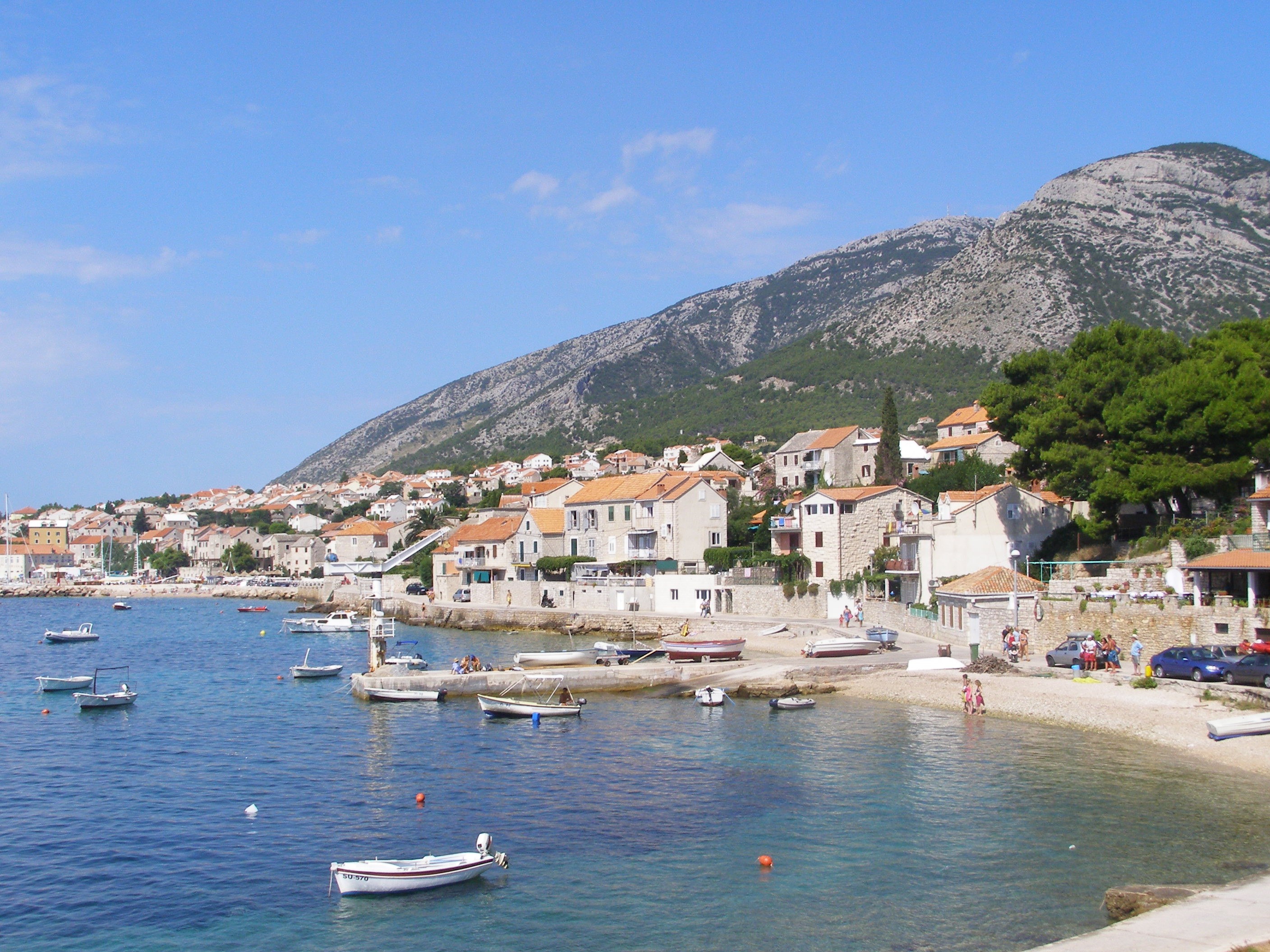 Bol, Brac, Croatia